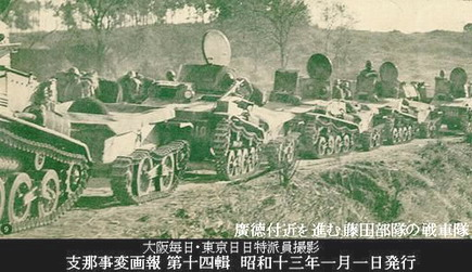 Column of IJA tanks advancing, by Mainichi Shimbun reporter.